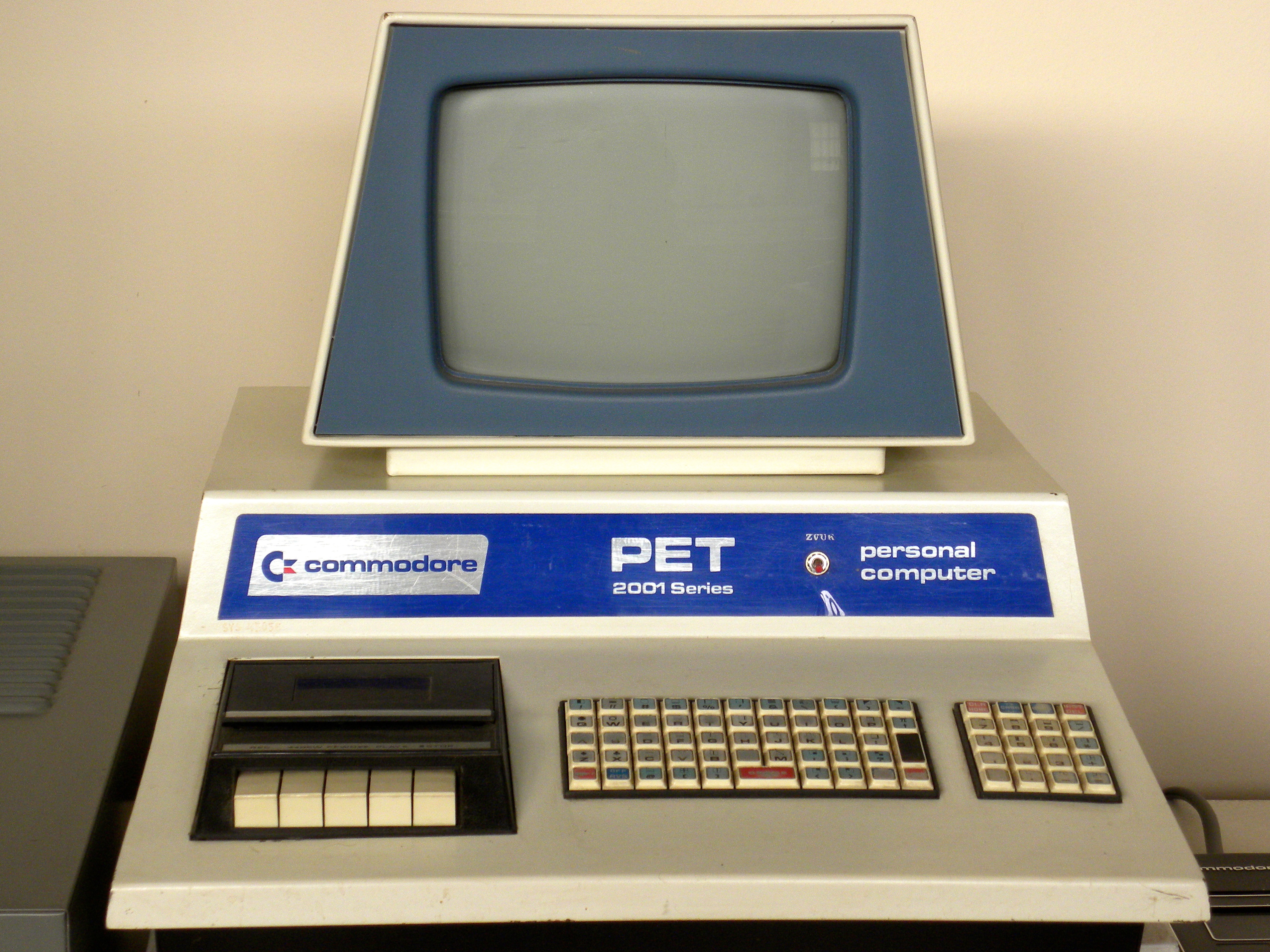 Commodore PET 2001 in the Zagreb Technical Museum.